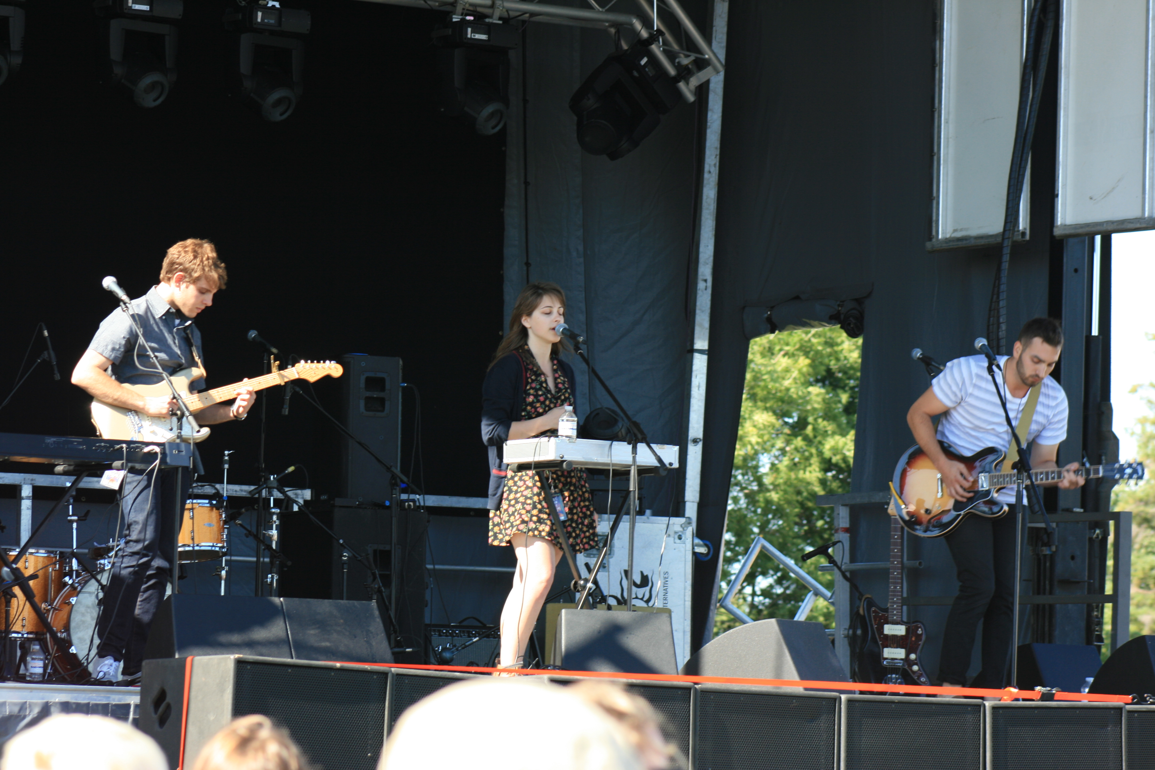 Memoryhouse